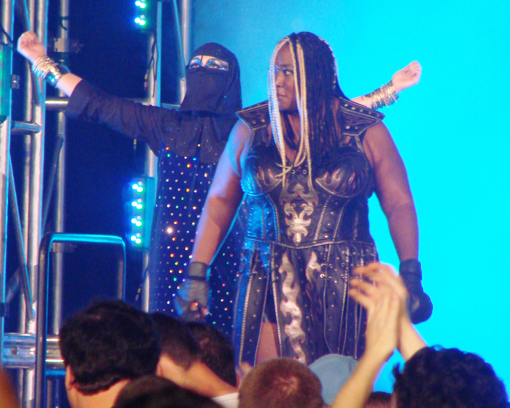 Awesome Kong (right, real name Kia Stevens) and Raisha Saeed (real name Melissa Anderson) at TNA Bound for Glory IV. Sears Centre; Hoffman Estates, IL; October 12, 2008. Photo taken and edited by myself.